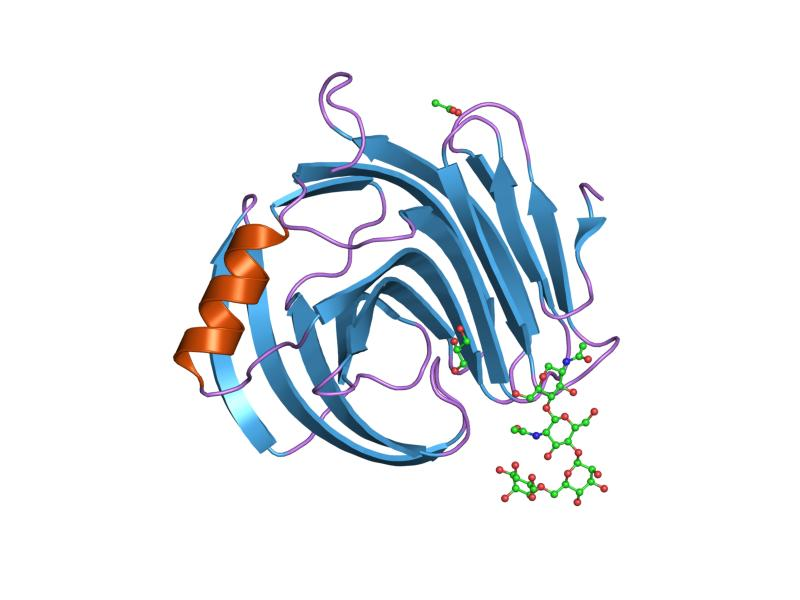 Cartoon representation of the molecular structure of protein registered with 1m4w code.